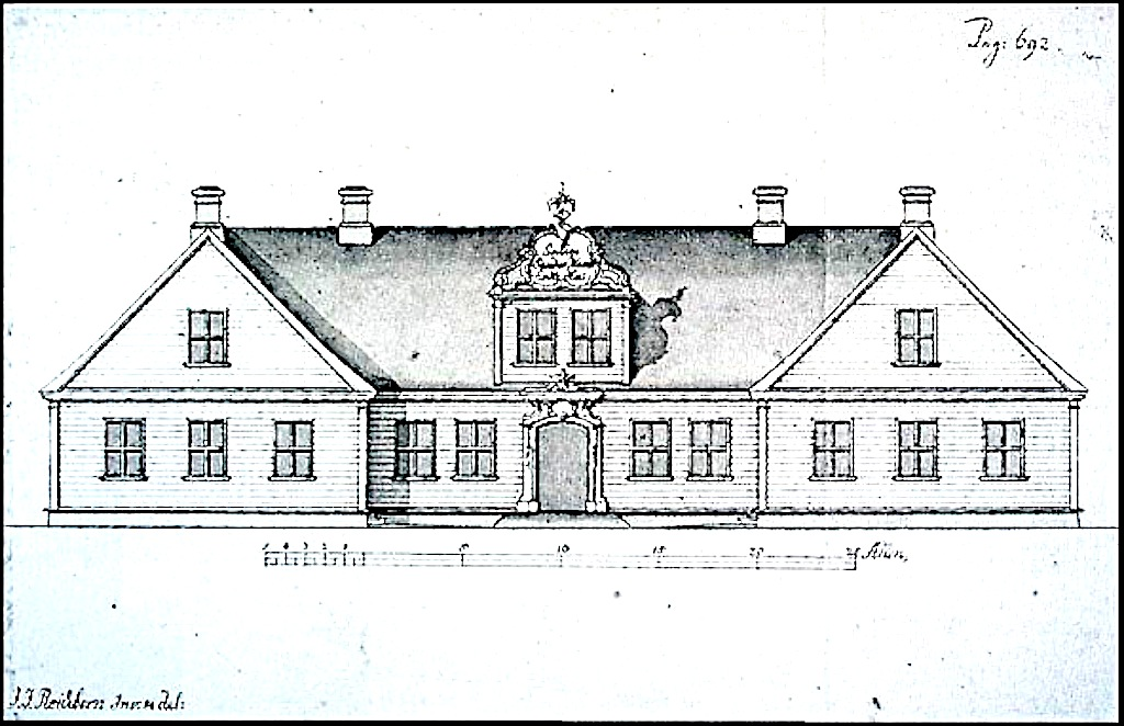 Zander Kaaes stiftelse, Bergen (Norway) by J. J. Reichborn, 1768